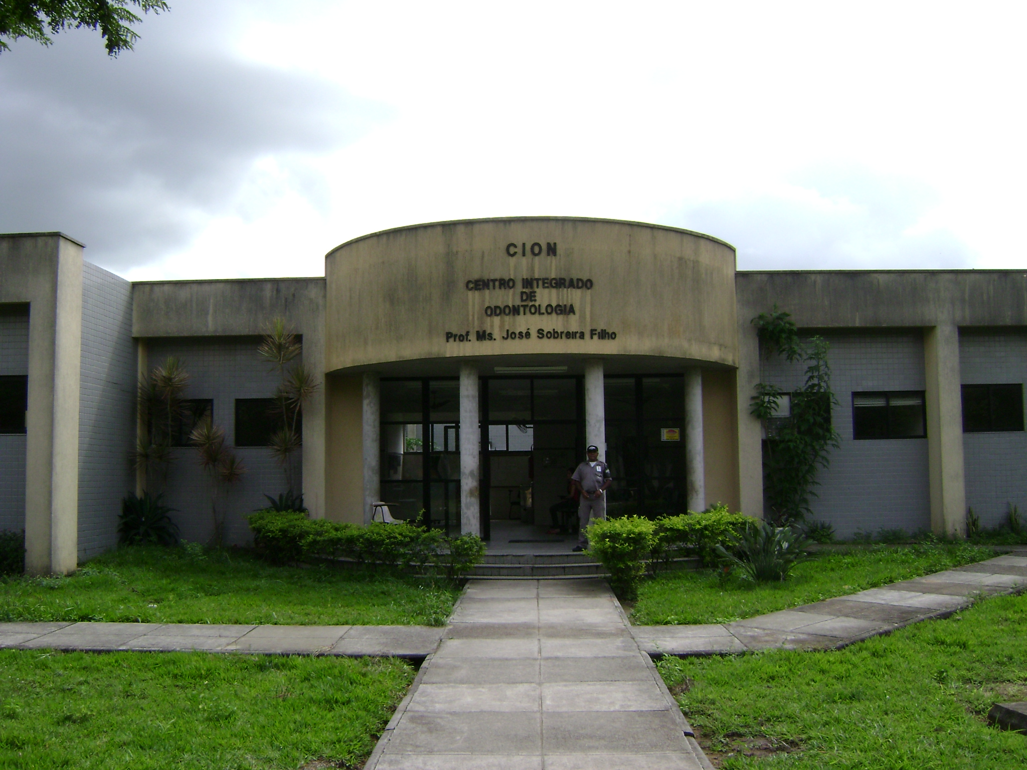 Entrance of CION, in Universidade Estadual de Feira de Santana, in Feira de Santana, Bahia, Brazil.